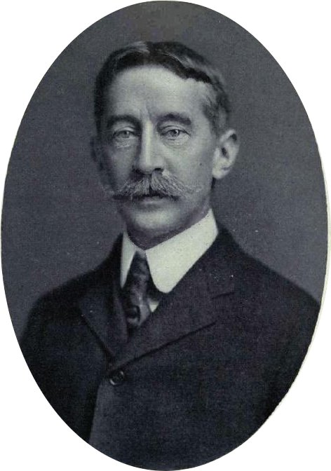 Portrait of George Bird Grinnell from Nathaniel Pitt Langford's Diary of the Washburn Expedition to the Yellowstone and Firehole Rivers in 1870 (1905)